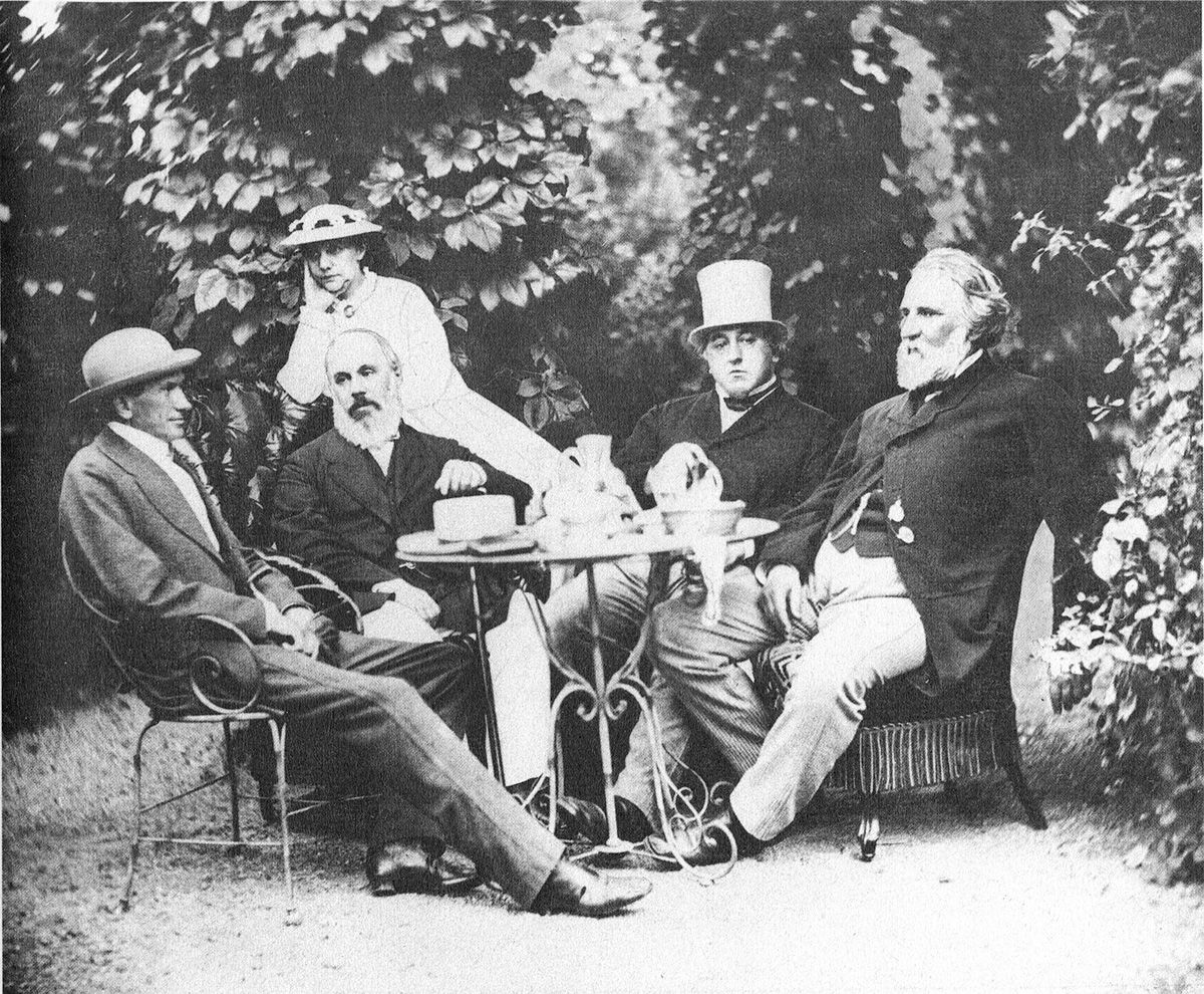 Photo of Ivan Turgenev and friends at the Malyutins' country house in Baden-Baden